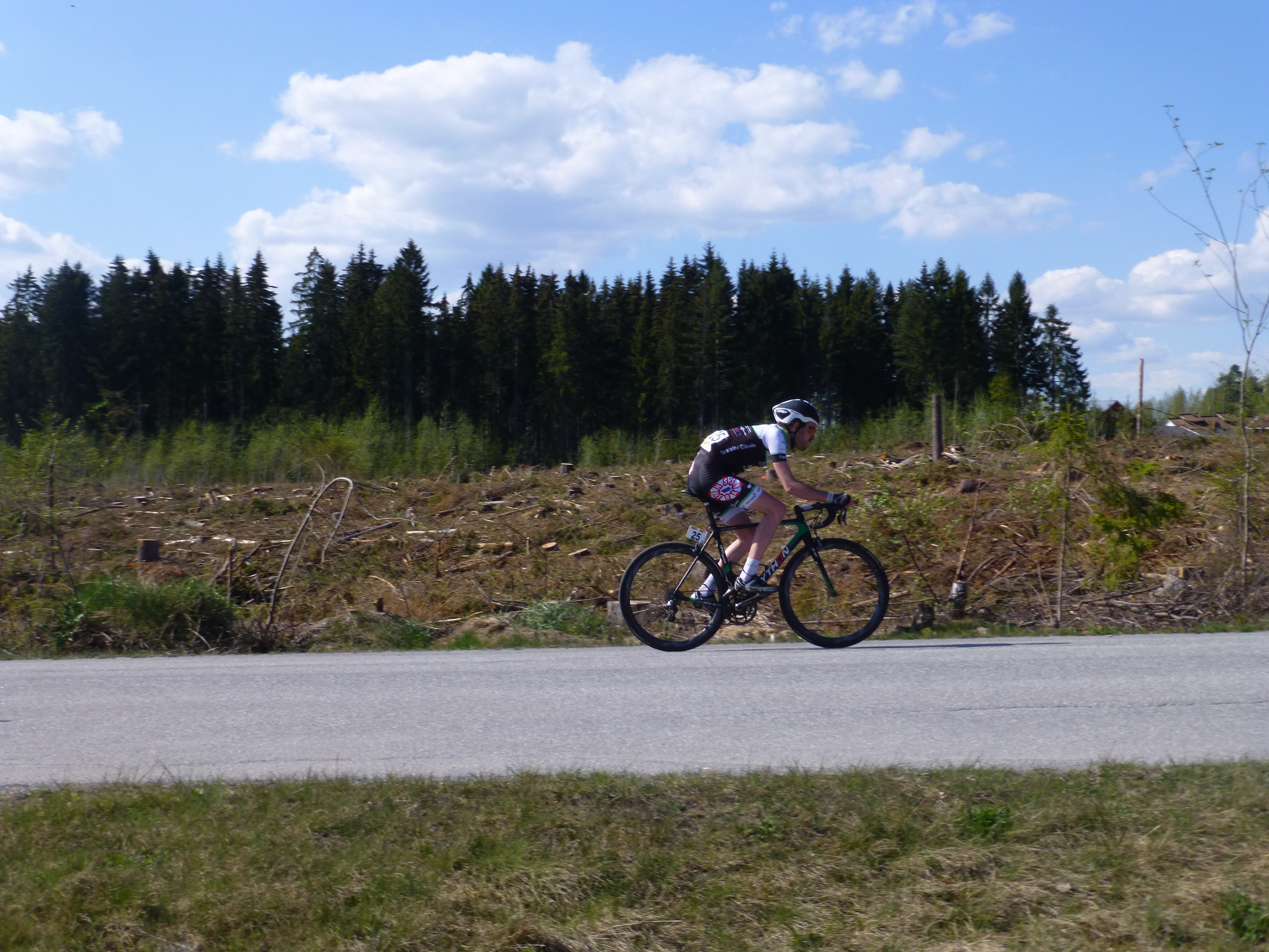 Ringerike GP 2016 - start numbers: 25 Martin Toft Madsen (1985, DEN)